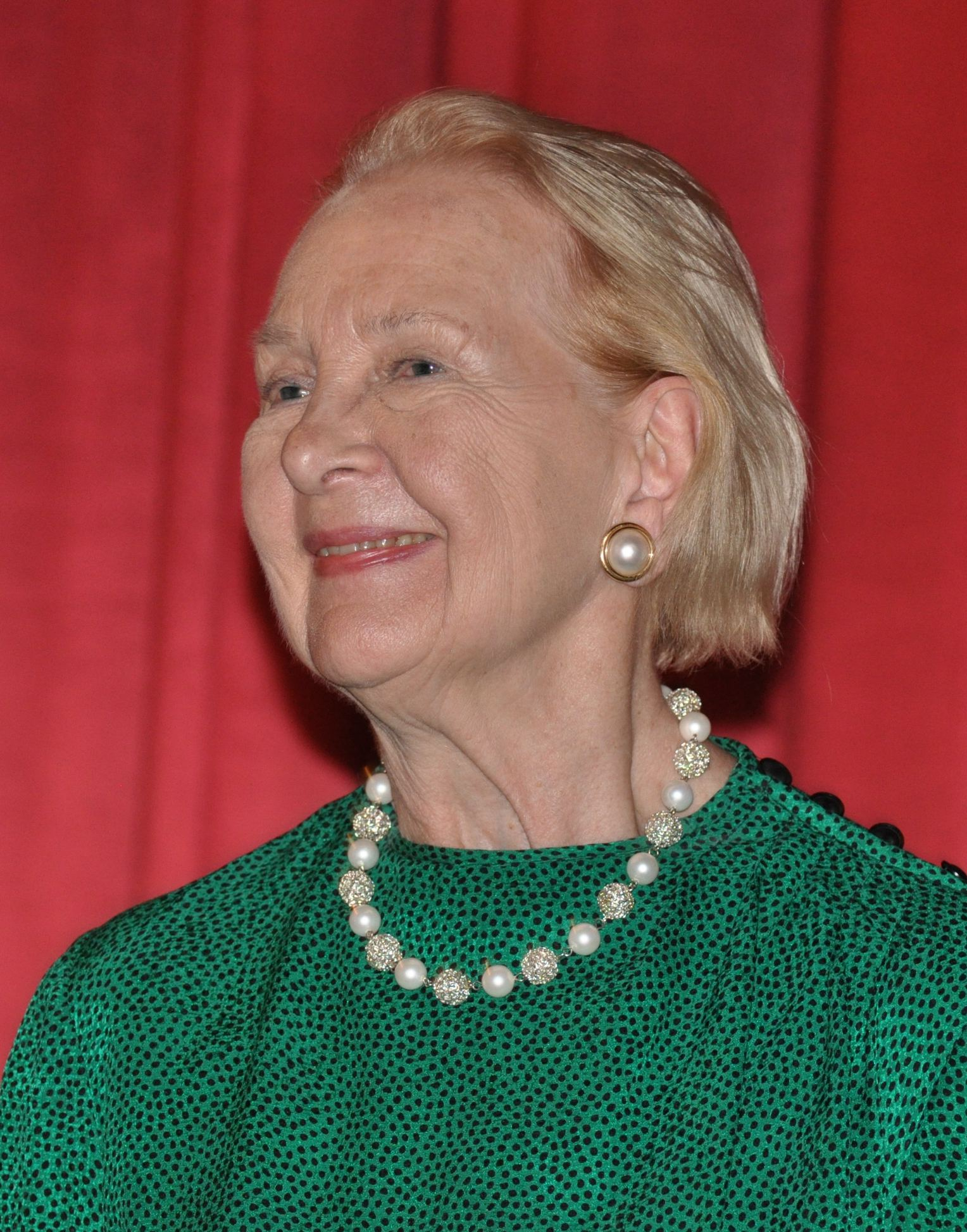 Finnish-American actress Taina Elg at Midnight Sun Film Festival in Sodankylä, 2012.